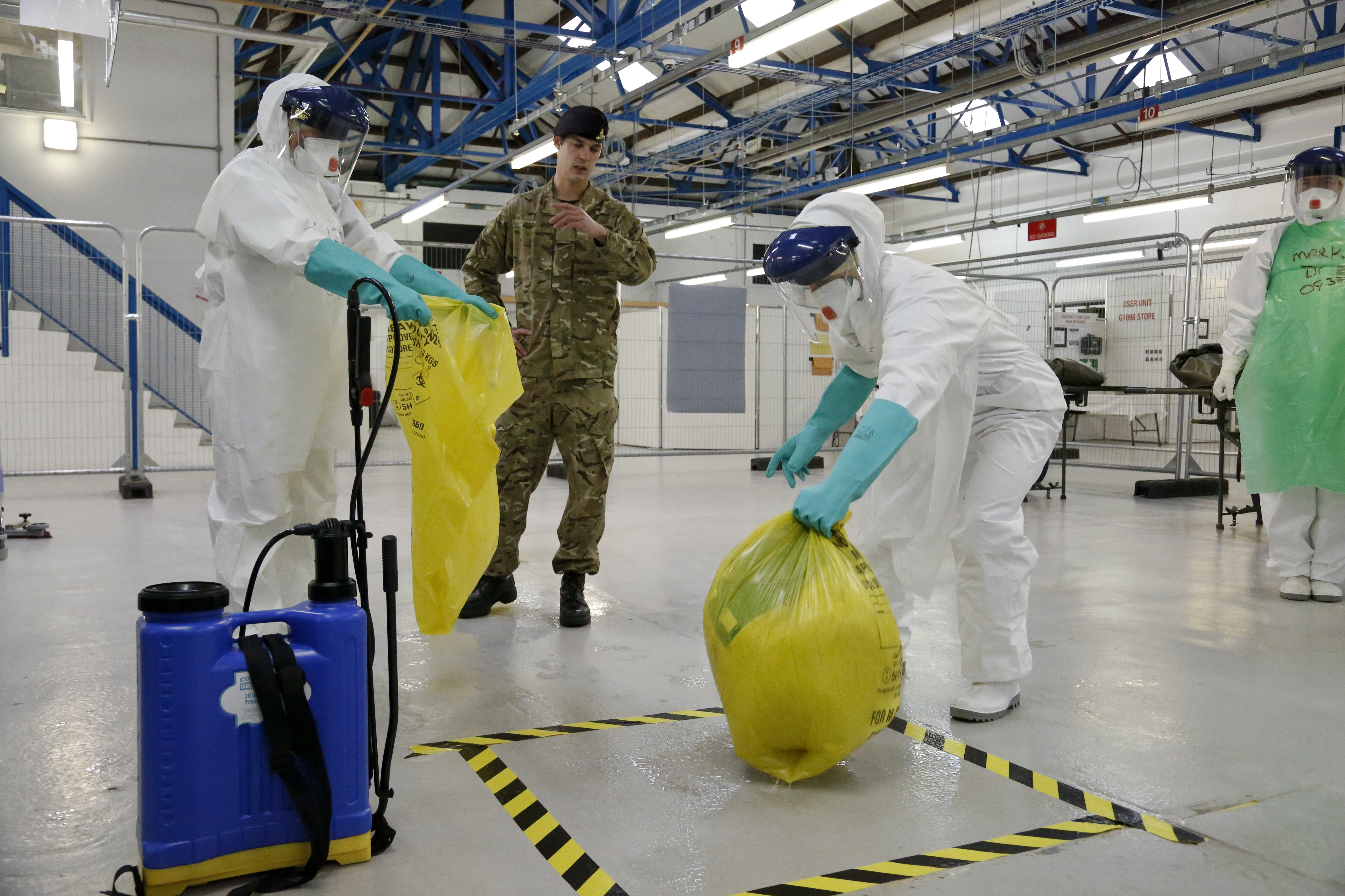 An Army medic shows NHS medics how to safely dispose of potentially contaminated waste, at a training facility near York. The centre provides a simulation of the British-built centres in Sierra Leone, helping to train and prepare the NHS medics who are joining the UK's fight against the diseases. Doctors, nurses and medics from across the UK's National Health Service are joining Britain's fight against Ebola in Sierra Leone.. The NHS volunteers have spent 9 days training at the Army Medical Services Training Centre, at Strensall near York in preparation. The facility is a replica of a Sierra Leone Ebola treatment centre. More than 30 NHS staff will make up the first group of volunteers to be deployed by the UK government. The group - which includes GPs, nurses, clinicians, psychiatrists and consultants in emergency medicine - will work on testing, diagnosing and treating people who have contracted the deadly virus. They will work in British-built treatment centres across the country, which when full, will triple Sierra Leone’s bed capacity. Find out more about the UK's fight against Ebola in Sierra Leone at: Picture: Simon Davis/DFID Free-to-use photo This image is posted under a Creative Commons - Attribution Licence, in accordance with the Open Government Licence. You are free to embed, download or otherwise re-use it, as long as you credit the source as 'Simon Davis/DFID'.